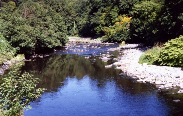 River Roe flowing through The Roe Valley Country Park, Limavady.